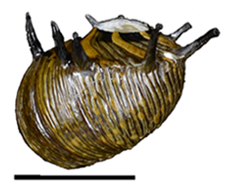 Photo of an abapertural view of a shell of Clithon corona. Scale bar is 10 mm.